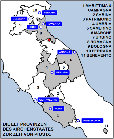 the 11 provinces of the Papal State in the 19. century during the papacy of pope Pius IX.